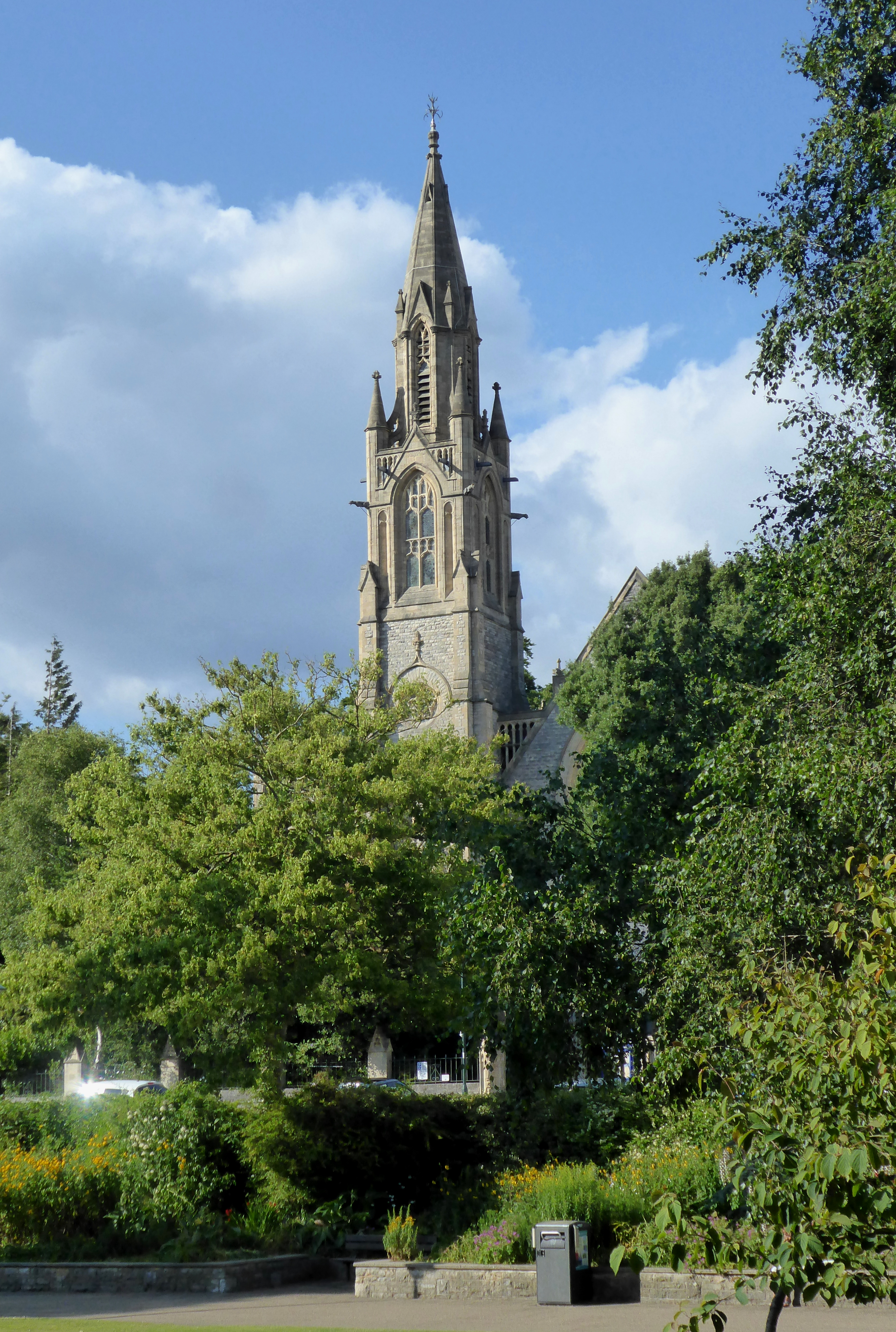 St Andrew's Church, a United Reformed Church in Bournemouth, Dorset.